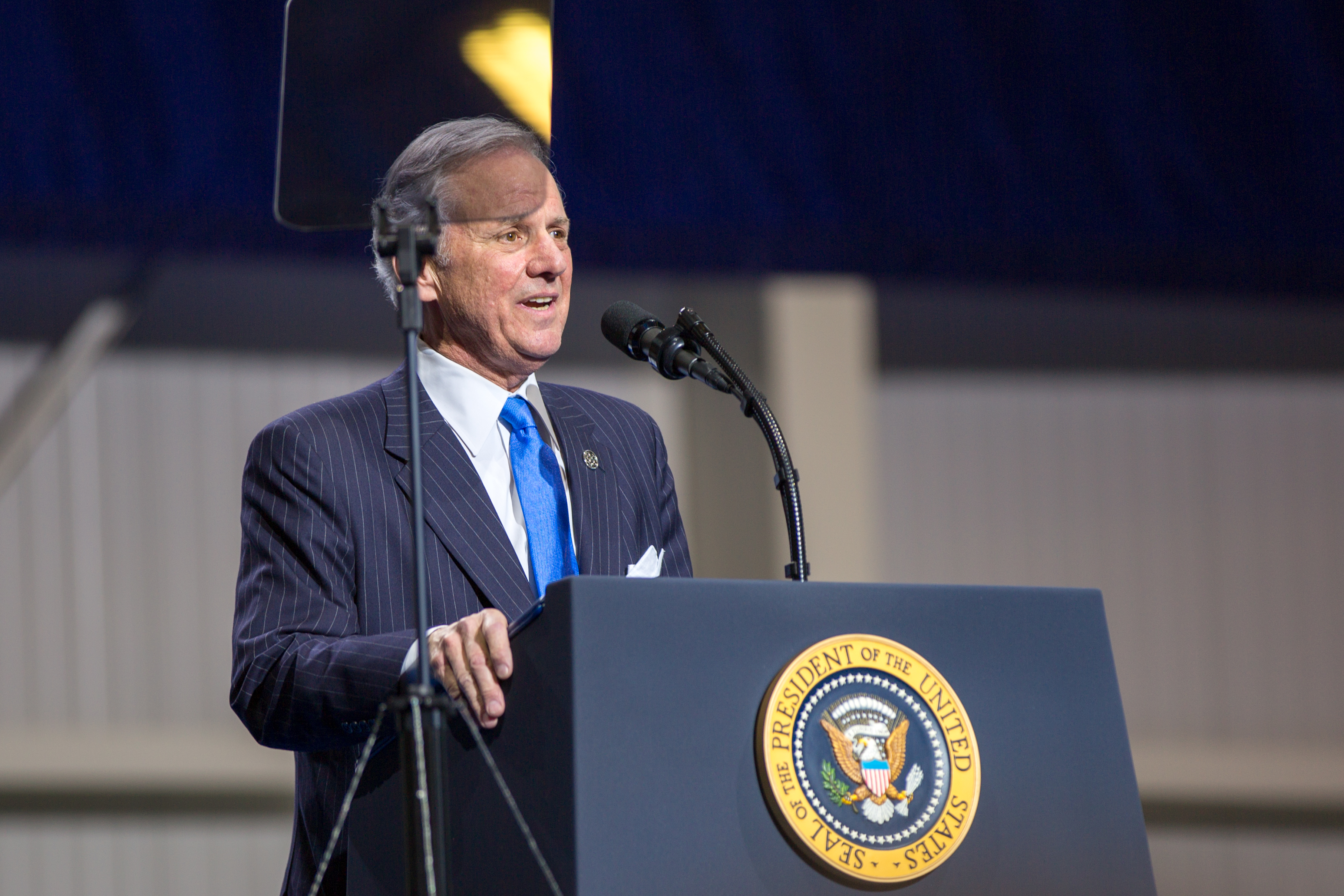 On February 17, 2017, Boeing South Carolina in North Charleston, SC rolled out the first 787-10. US President Donald Trump (POTUS) was in attendance at the ceremony. The 787-10 will be built exclusively in North Charleston, SC. Photo by Ryan Johnson